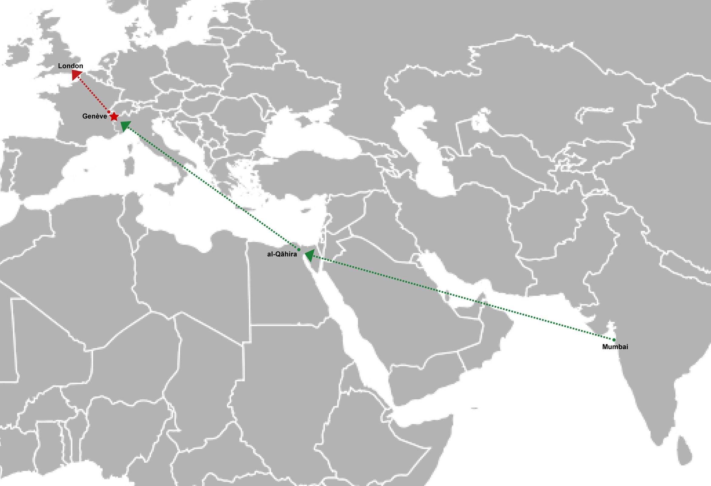 Route of Flight Air India 245 from Bombay to London, crashed on November, 3rd 1950 on Mount Blanc